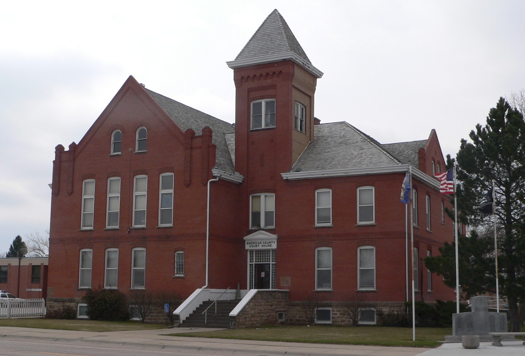 Sheridan County, Nebraska courthouse in Rushville, Nebraska: seen from the northwest.